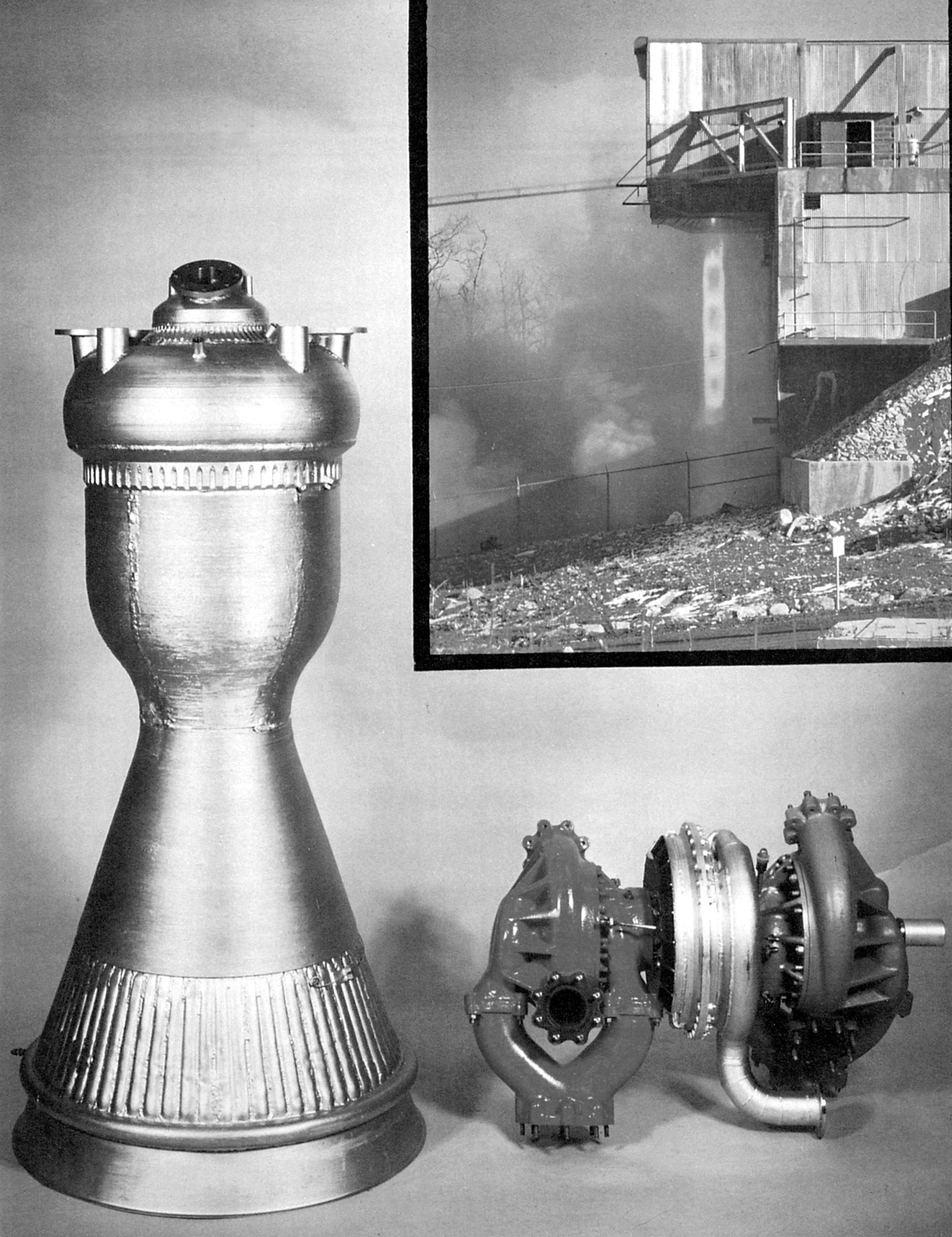 The XLR10 engine that powered the Viking sounding rocket developed for the Naval Research Laboratory.